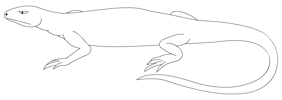 Description: Picture made by mateus zica in October 2005 Mateus Zica Wikipedia User Page is: This image is free to use in anywhere. If you gonna use it ,just send me a email telling me where its gonna be used.Thanks. Source: Mateus Zica